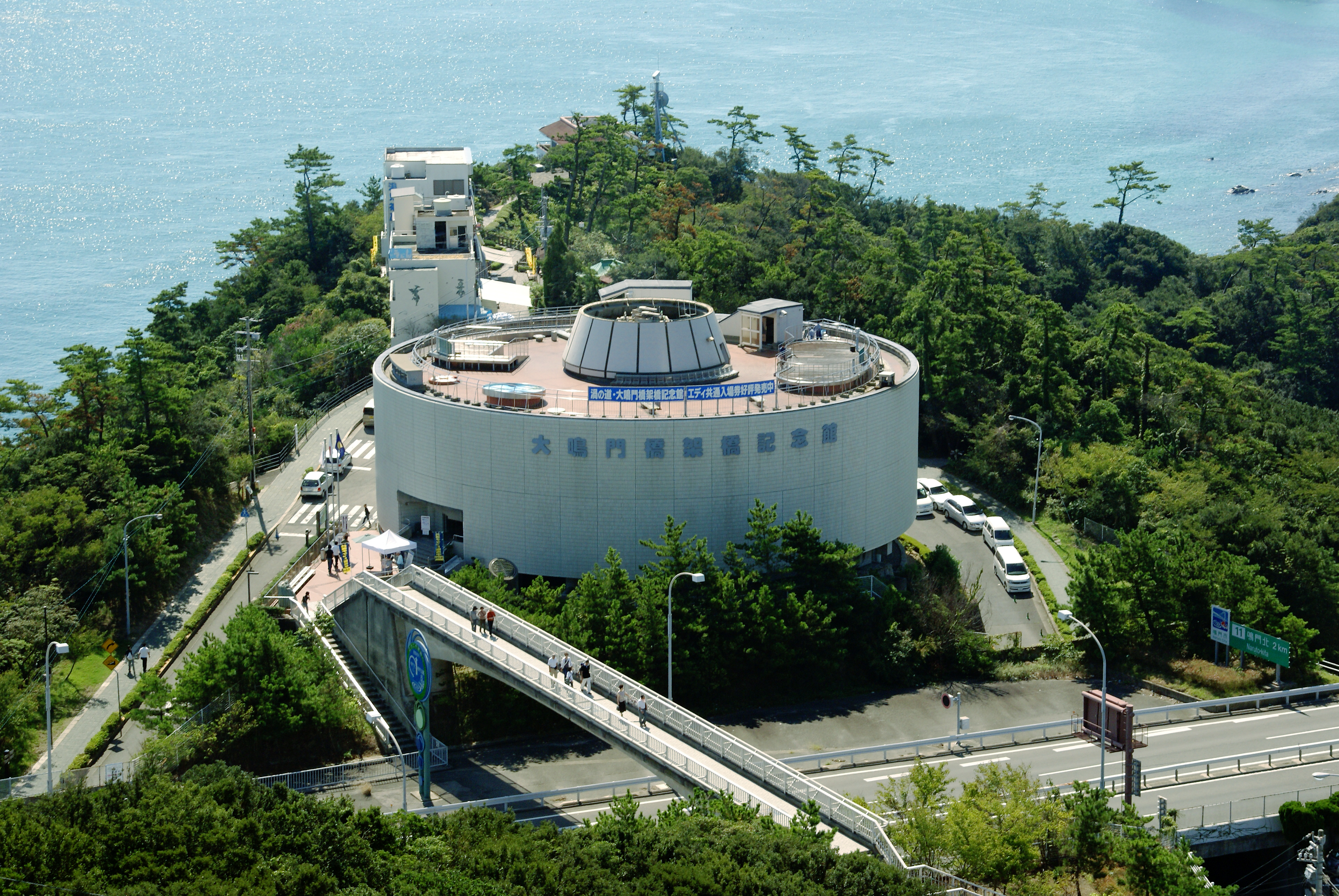 Big Naruto Bridge Memorial Museum "Eddy" in Naruto, Tokushima prefecture, Japan